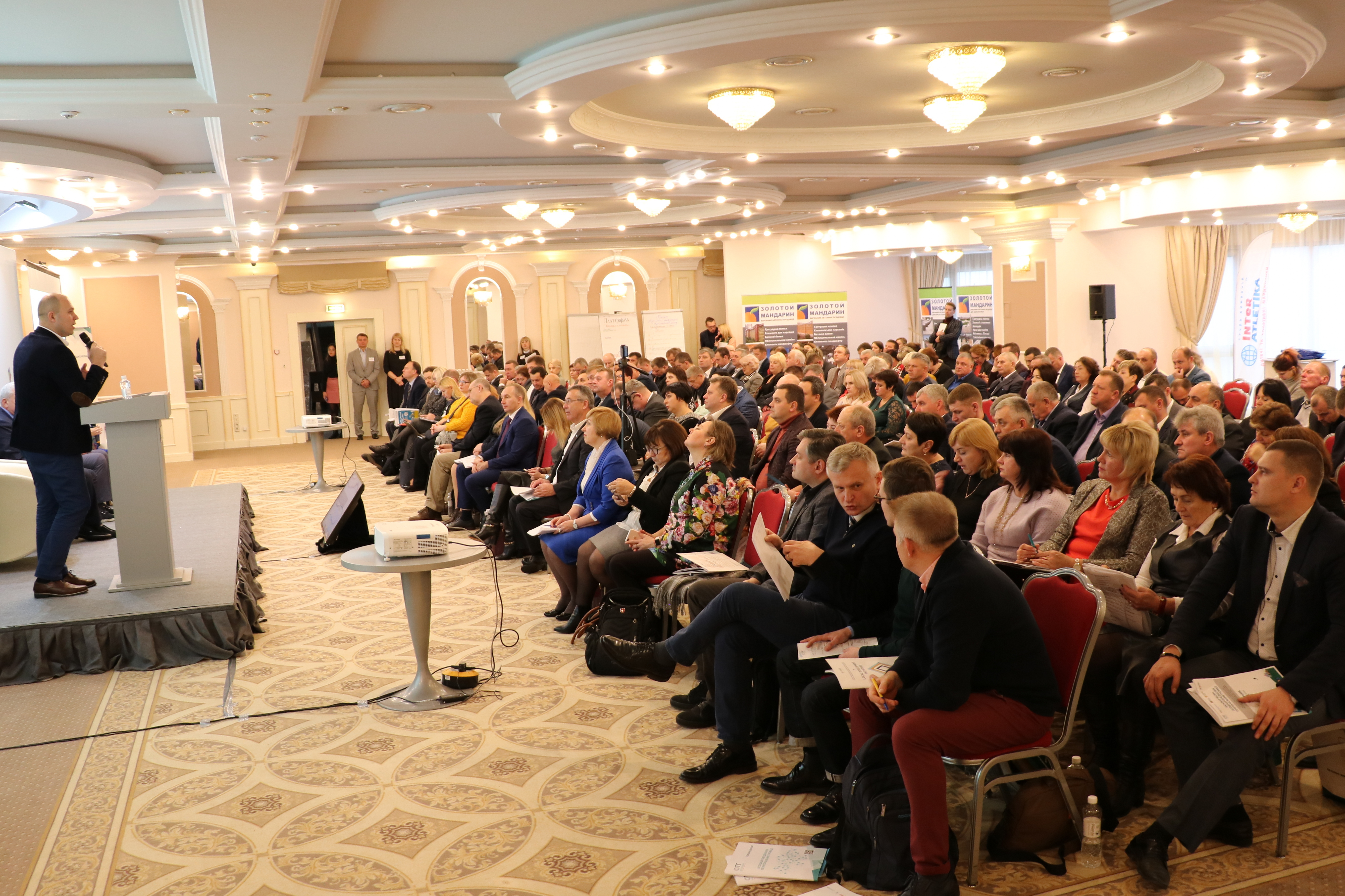 Загальні Збори Всеукраїнської Асоціації ОТГ